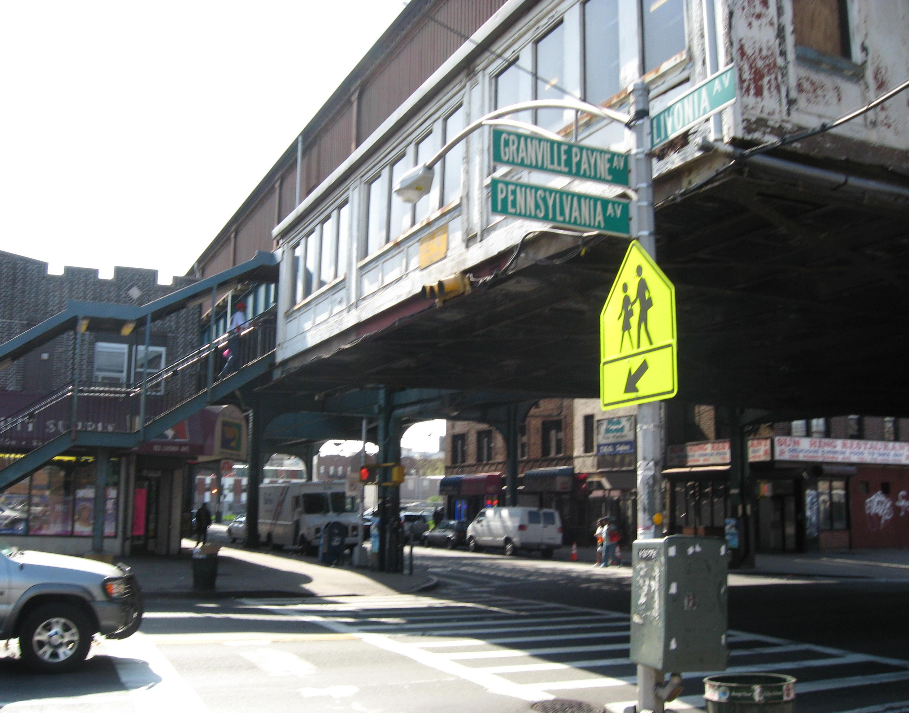 Looking west at Pennsylvania Avenue station of IRT on a sunny springtime afternoon.